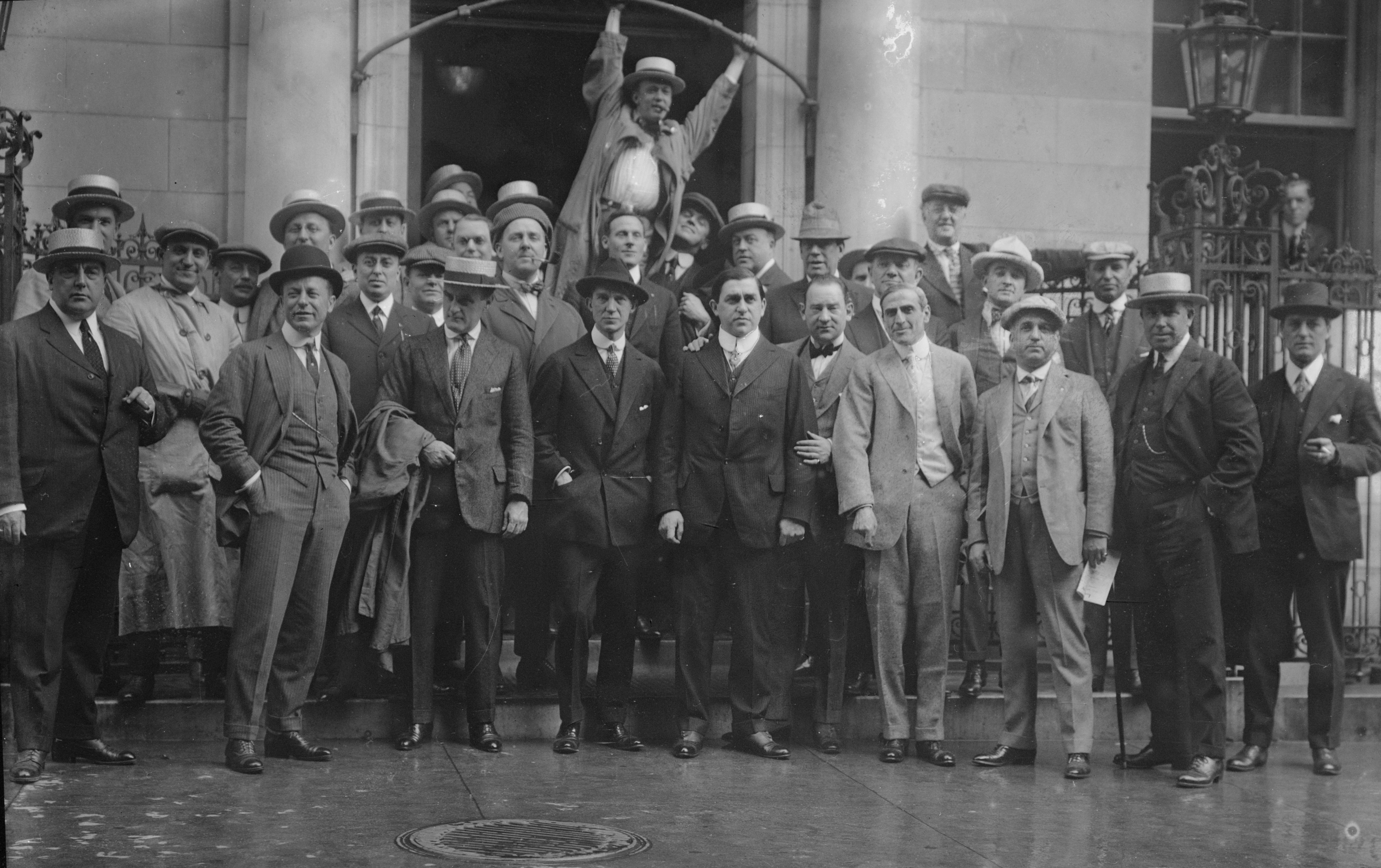 The Lambs at the The Lambs Club in Manhattan on June 27, 1915.